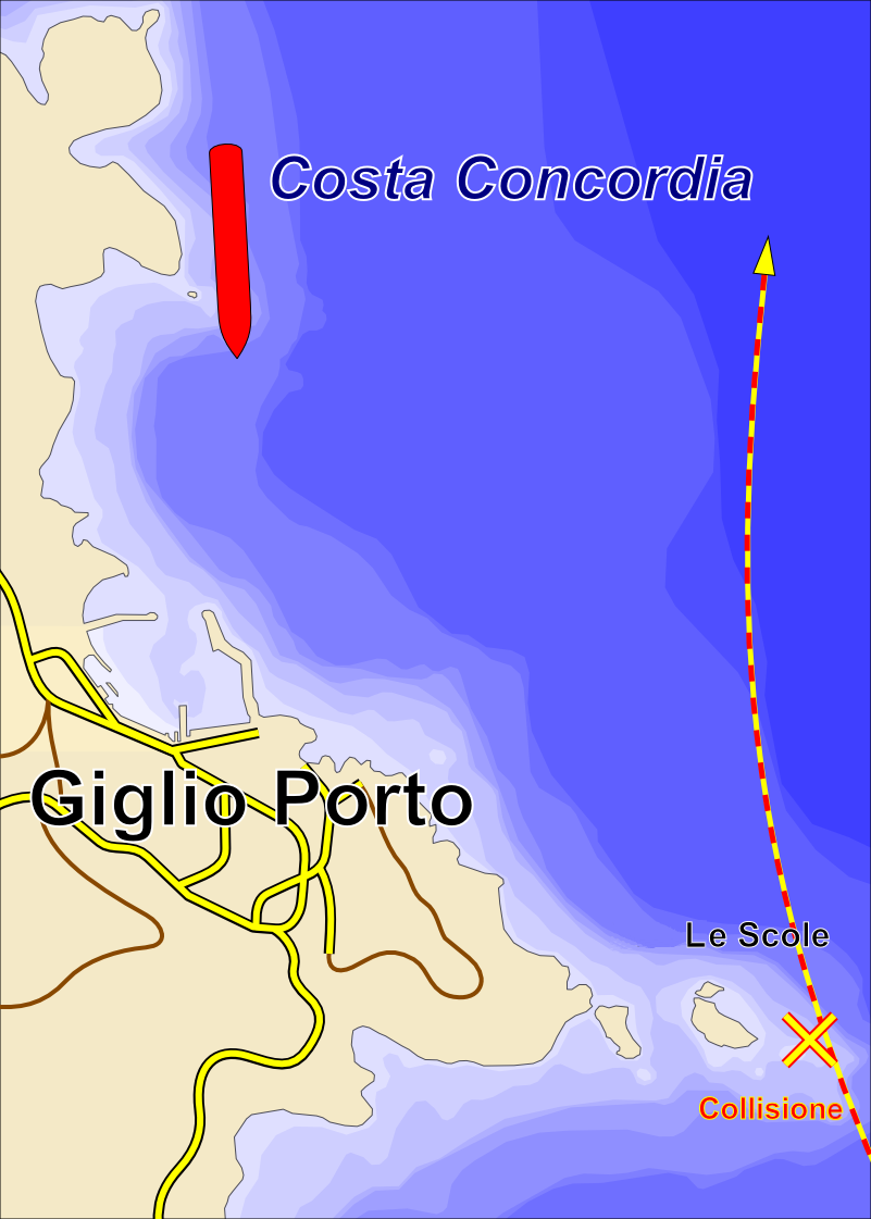 coastal waters near the island of Giglio, Costa Concordia, instead of collision